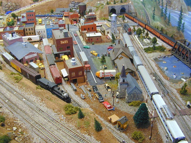 Part of an HO-gauge model railroad layout built by Arthur Spicer and photographed by Eric Guinther (Marshman at en.wikipedia), April 30, 2004.